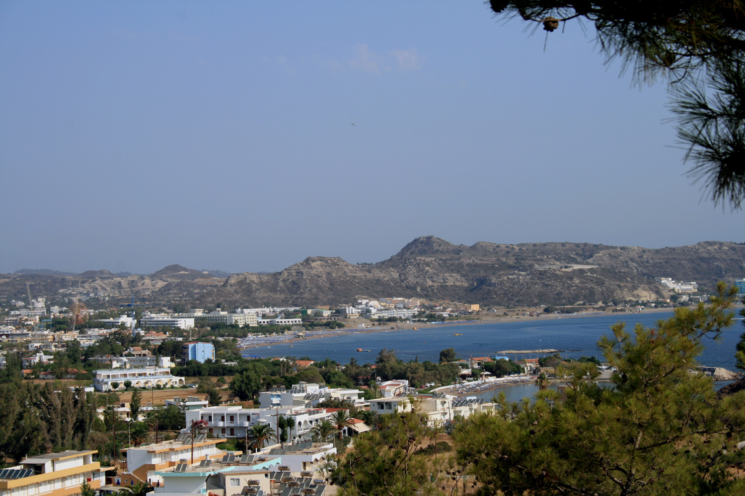 View on Faliraki hotels Pohled na hotely a pláž ve Faliraki Date= August 2007 Author= Karelj